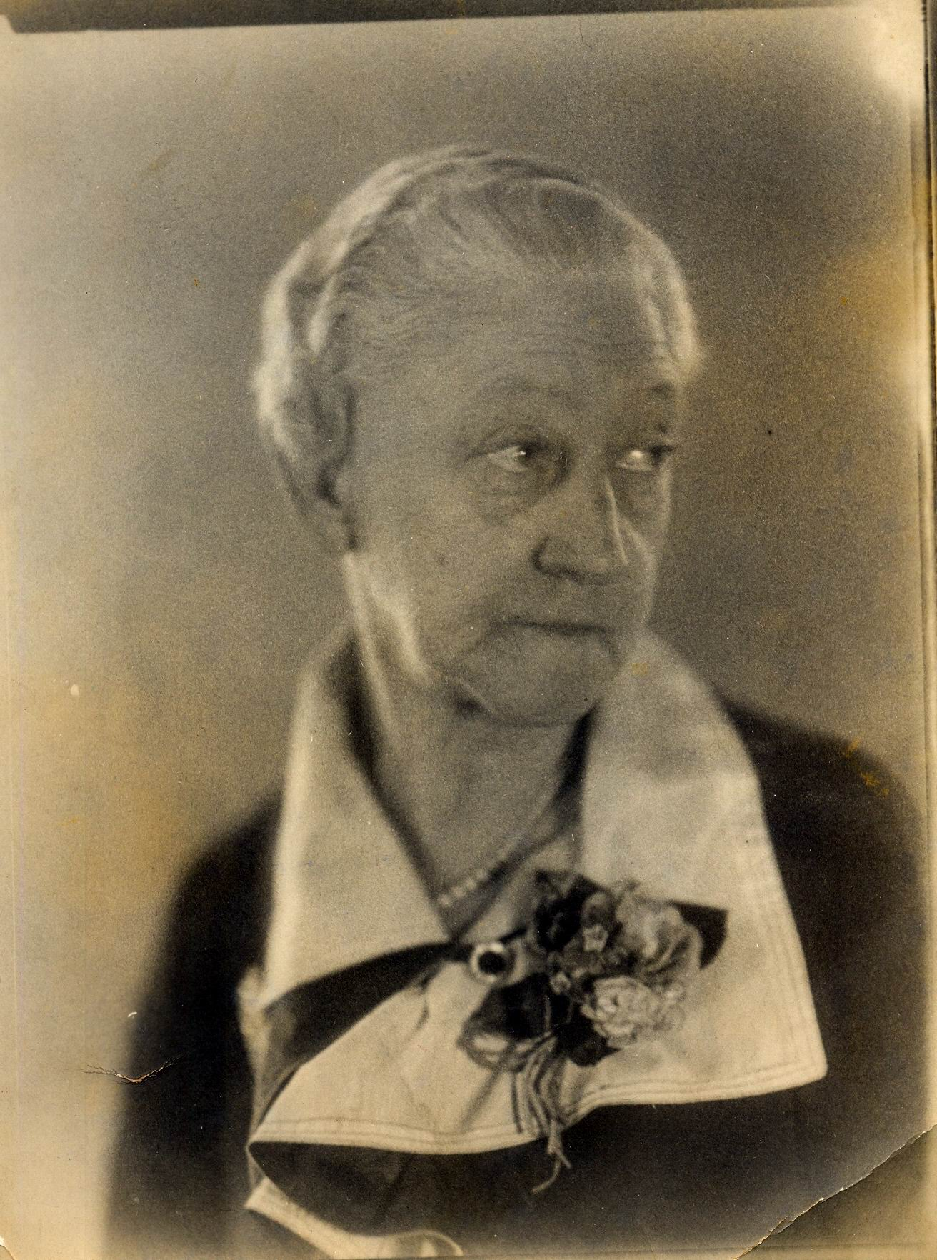 Direktorka Amerikanskog vaspitnog doma za srpsku ratnu siročad